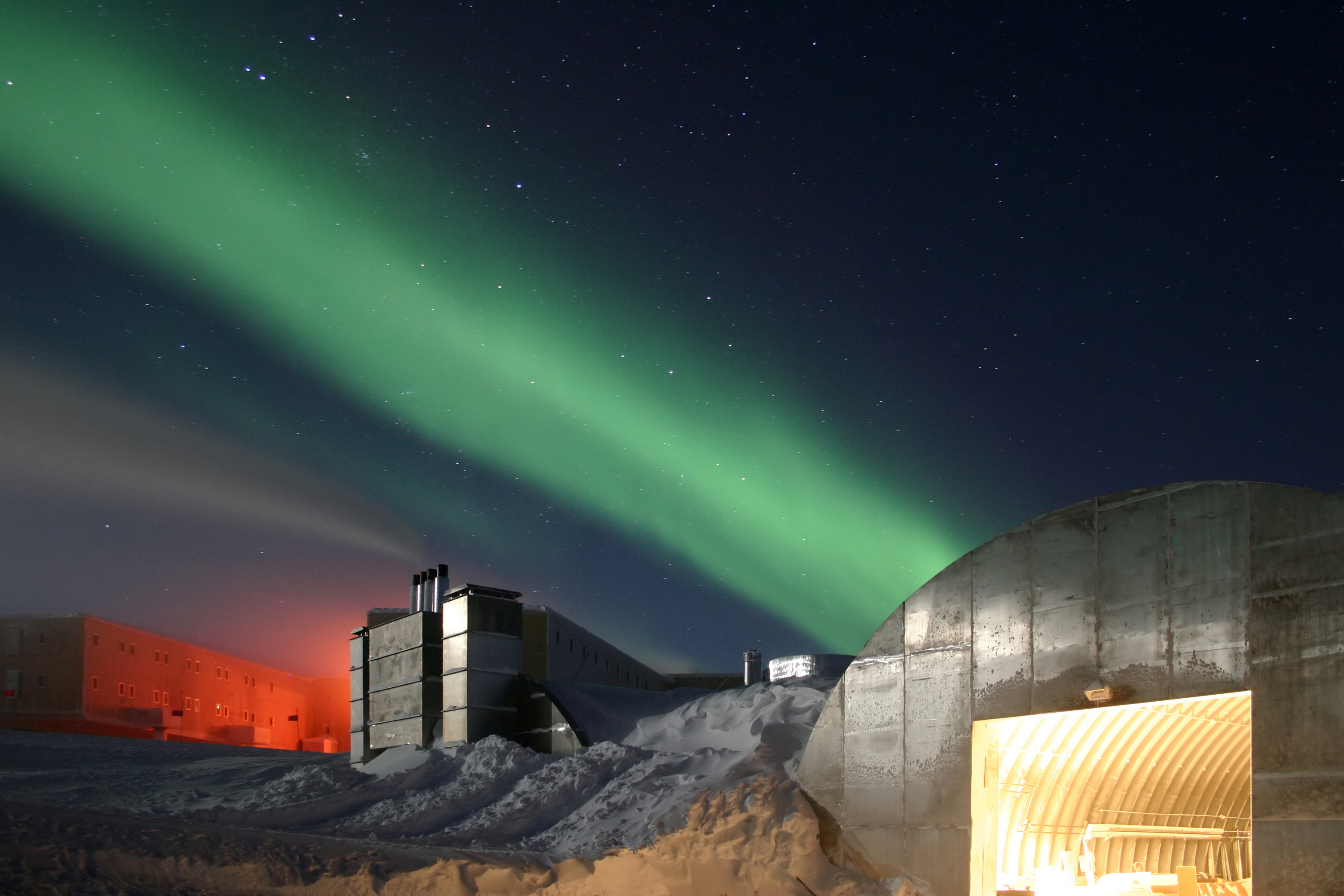 A full moon and 25 second exposure allowed sufficient light into this photo taken at Amundsen-Scott South Pole Station during the long Antarctic night. The new station can be seen at far left, power plant in the center and the old mechanic's garage in the lower right. Red lights are used outside during the winter darkness as their spectrum does not pollute the sky, allowing scientists to conduct astrophysical studies without artificial light interference. There is a background of green light. This is the Aurora Australis, which dances thorugh the sky virtually all the time during the long Antarctic night (winter).The photo's surreal appearance makes the station look like a futuristic Mars Station.